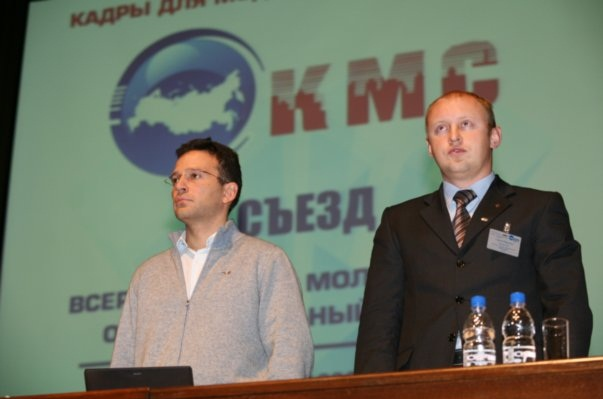 1 Congress Project personnel for the country's modernization, youth movement NASHI. The Members Of The Bureau